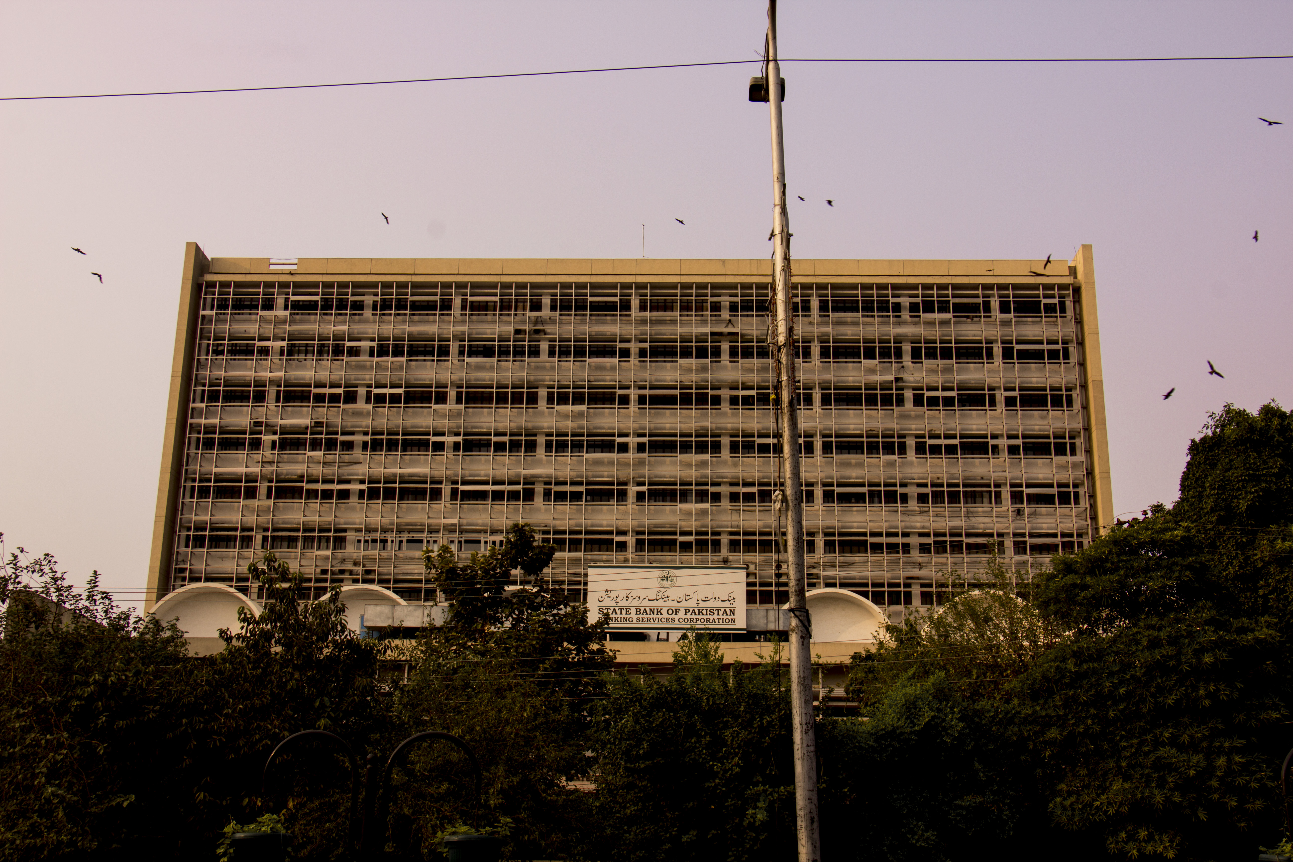 State Bank of Pakistan Building This is a photo of a monument in Pakistan identified as the PB-P-67